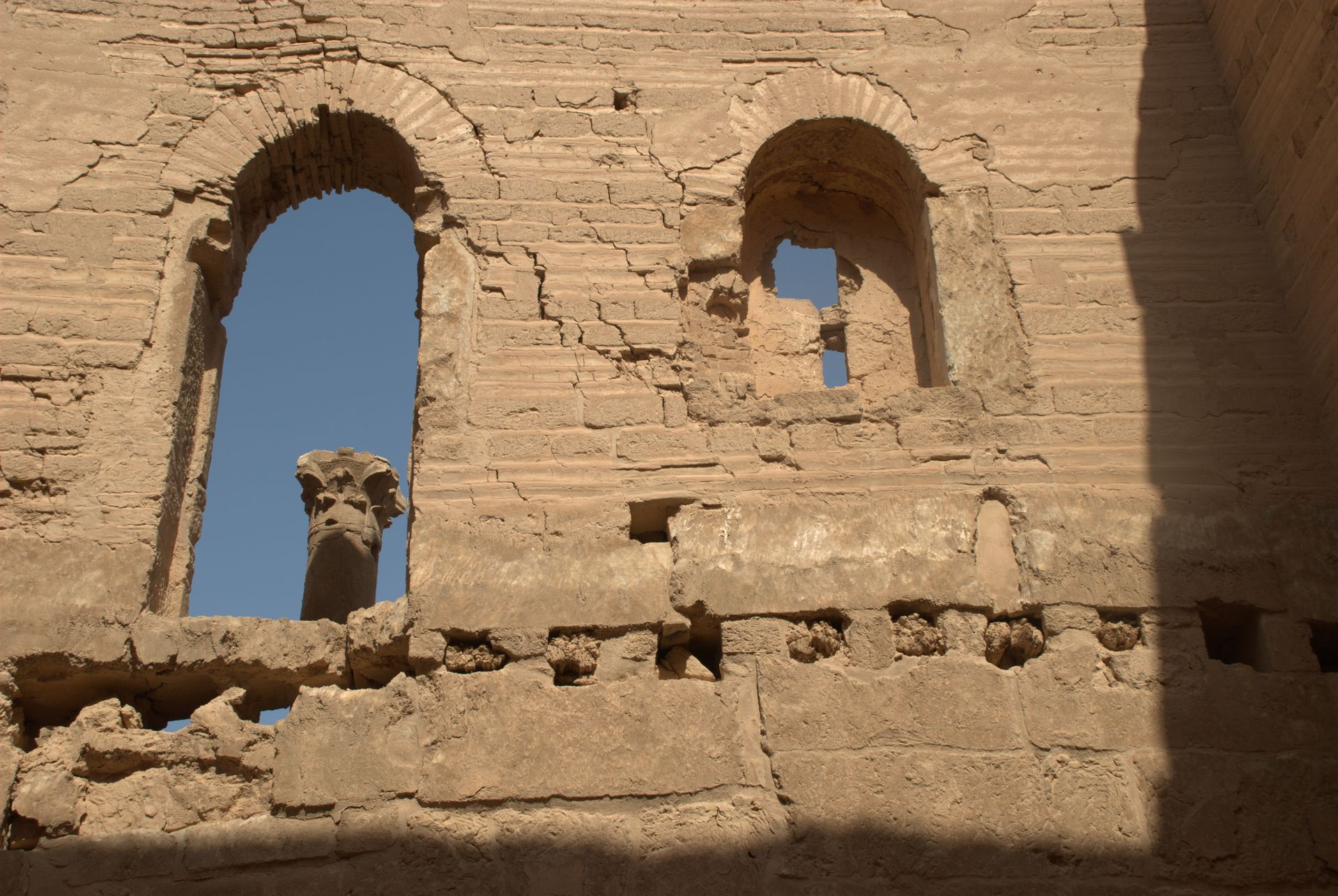 Resafa, Syria, Basilica A, apse